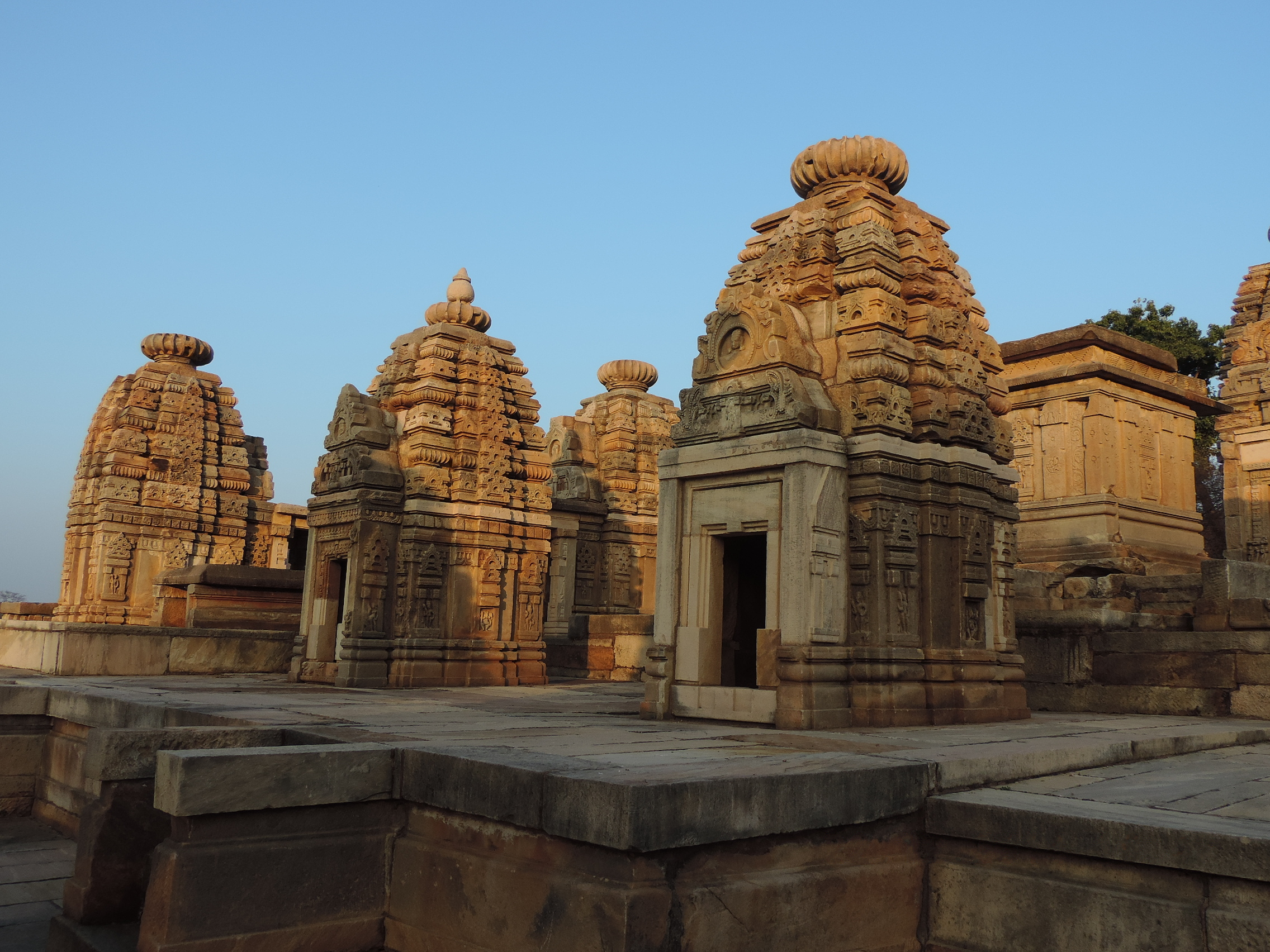 Bateshwar Temples Bateshwar Temple Complex, Morena district, Madhya Pradesh, India